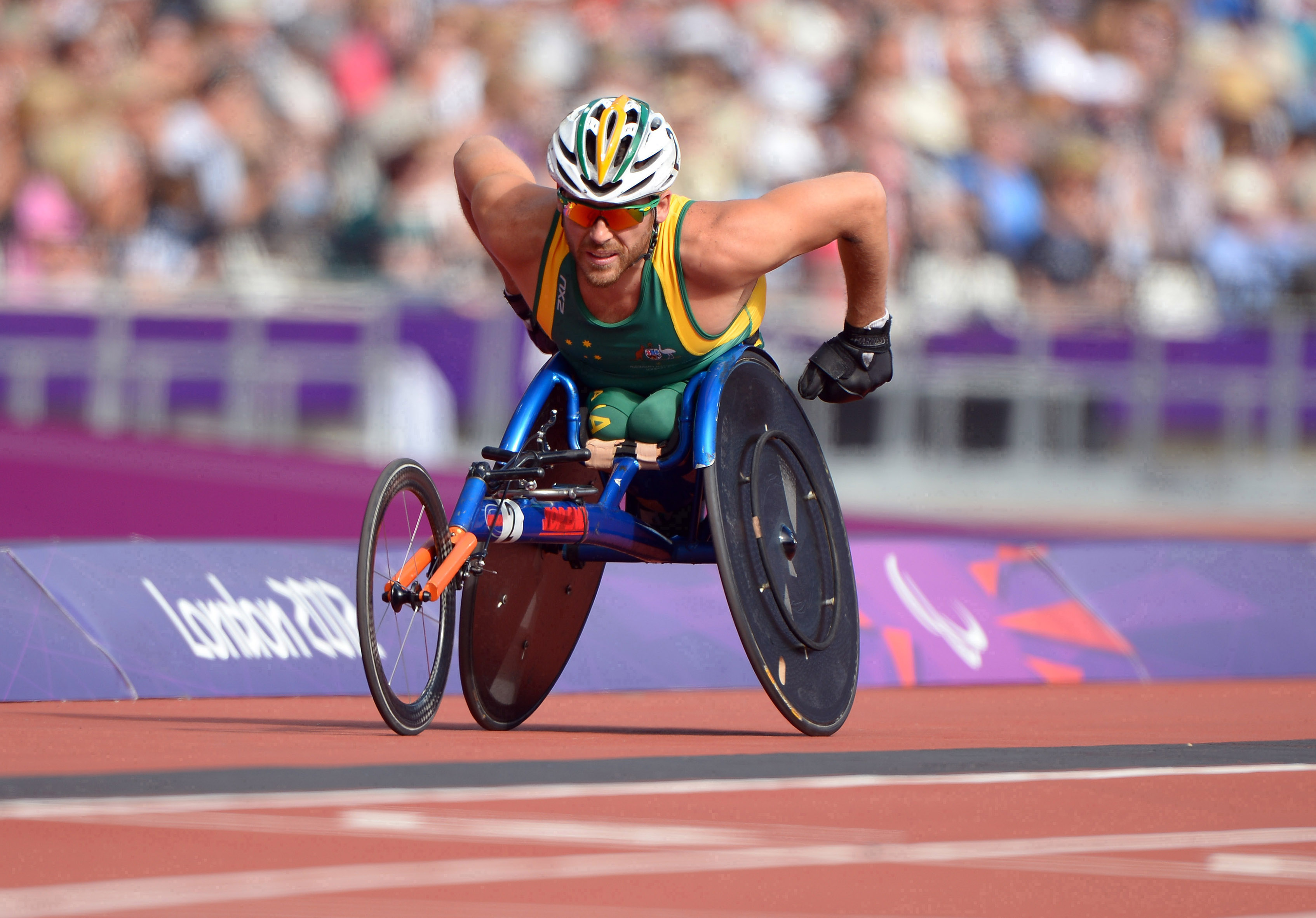 Photograph of Australian Paralympic team member Kurt Fearnley at the 2012 Summer Paralympic Games in London